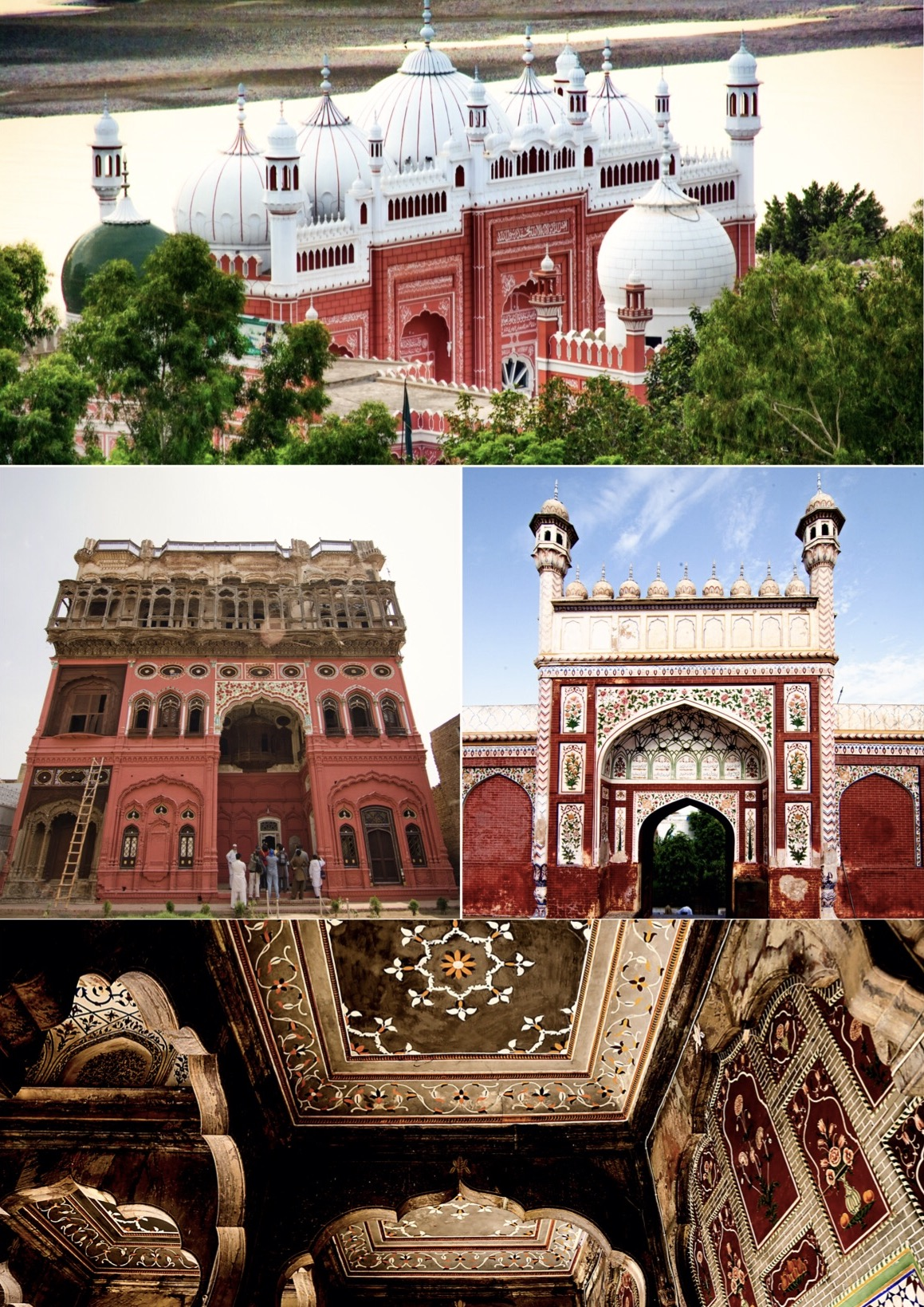 A montage of Chiniot